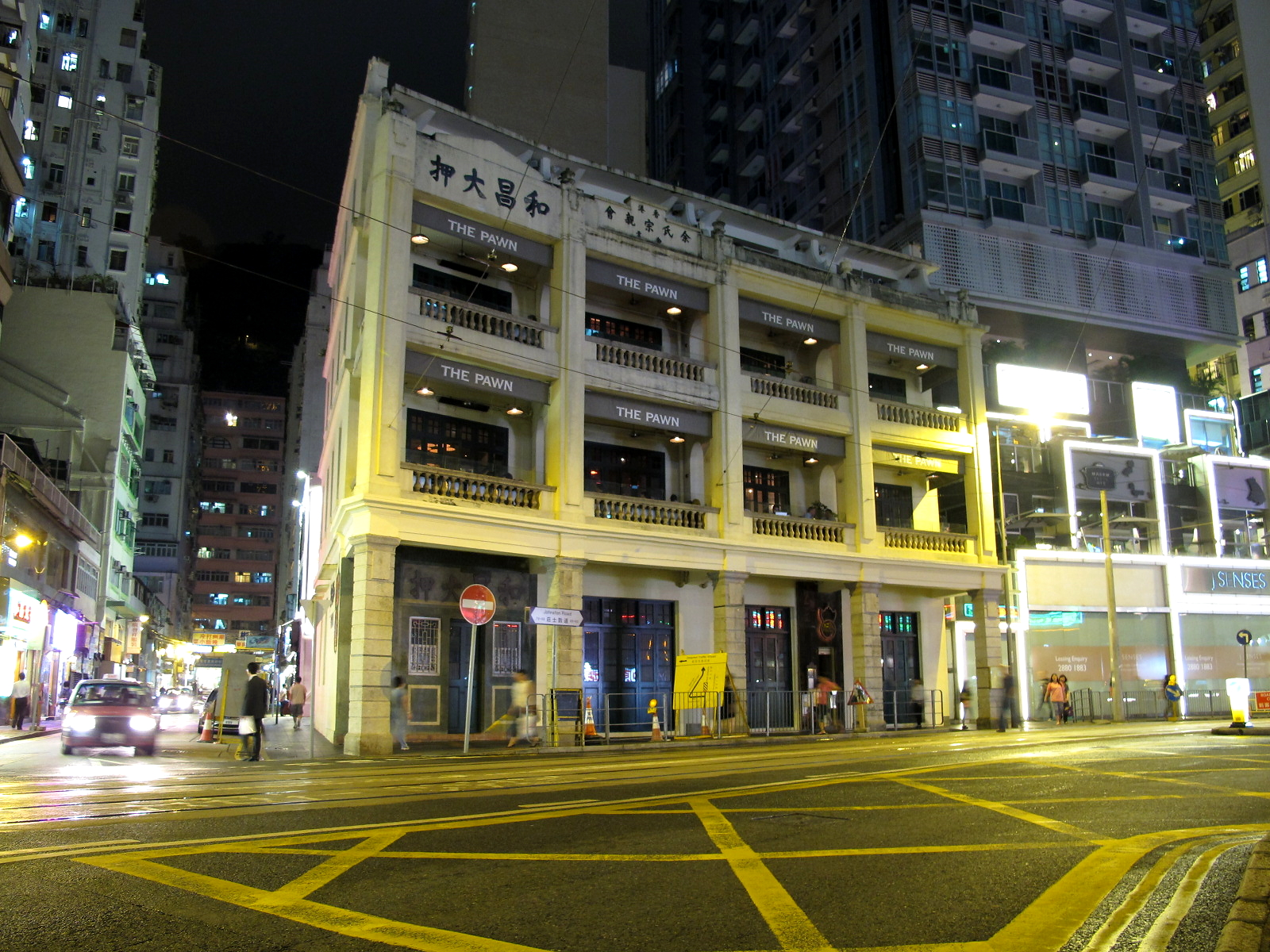 Wo Cheong Pawn Shop Night View_